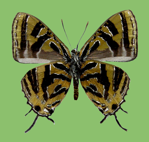 Catapaecilma nakamotoi H. Hayashi, male underside